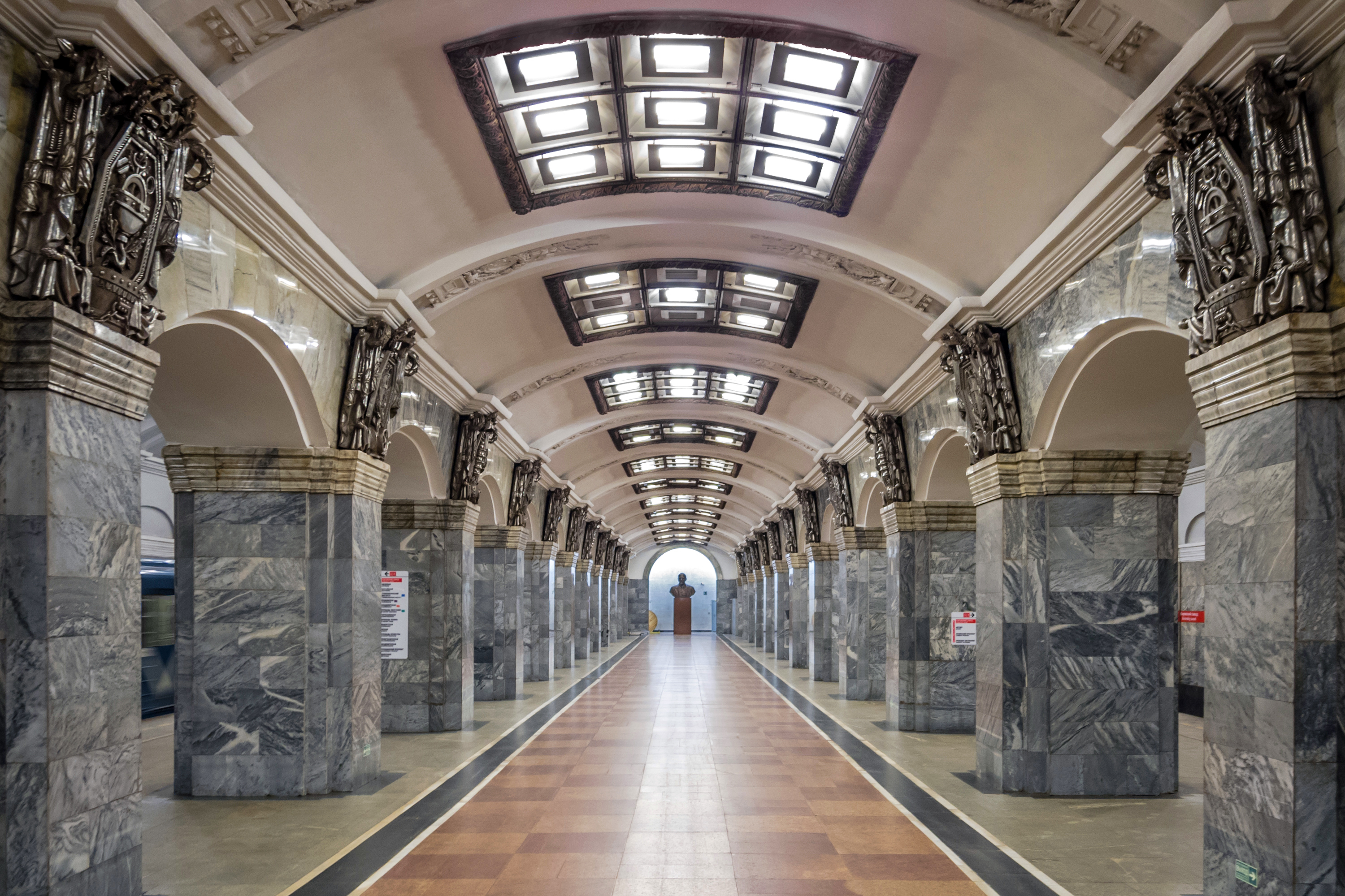 Kirovsky Zavod station of Saint Petersburg Subway